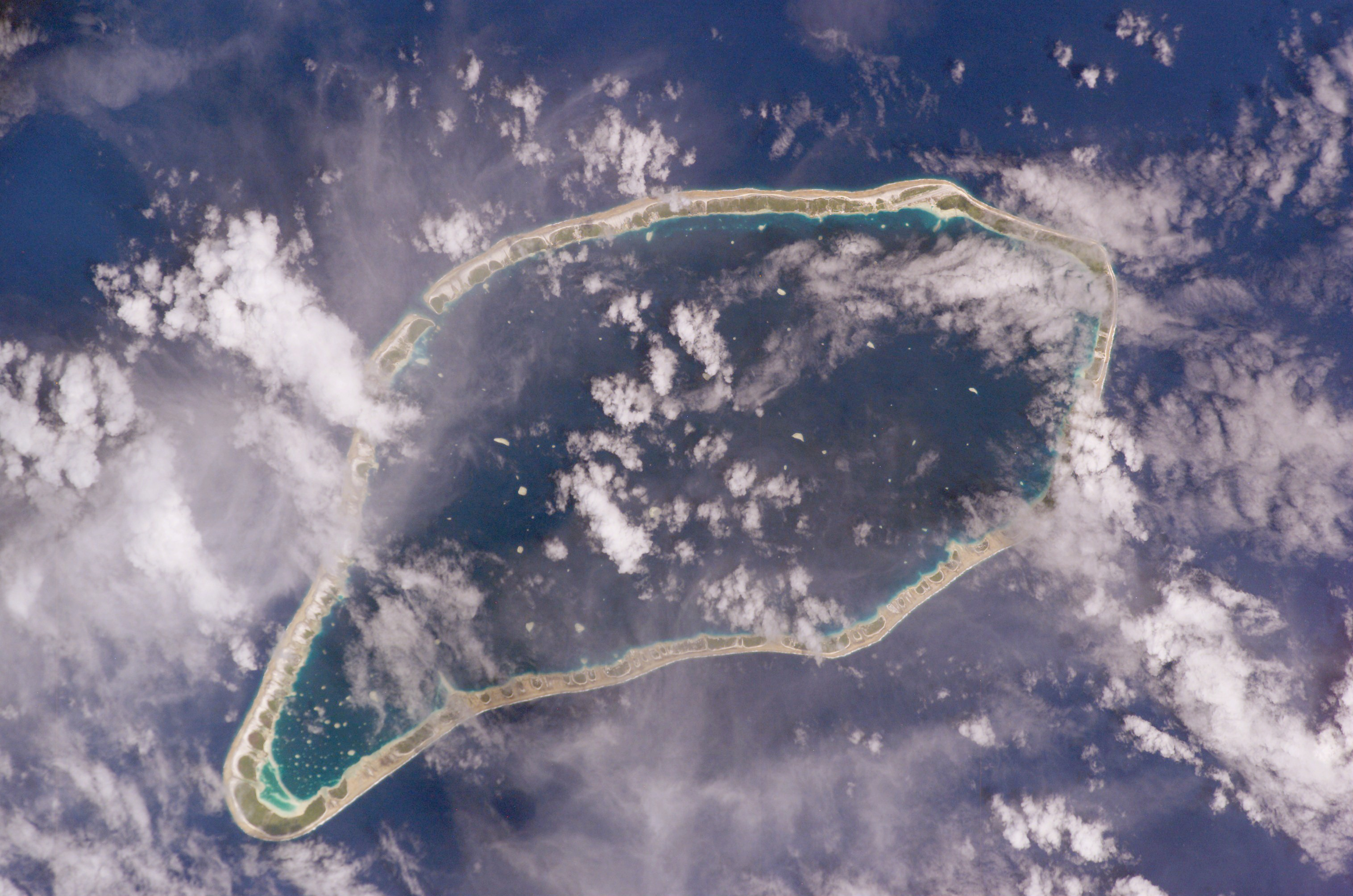 NASA Astronaut Image of Ahe Atoll(Tuamotu Archipelago, French Polynesia) in the Pacific Ocean